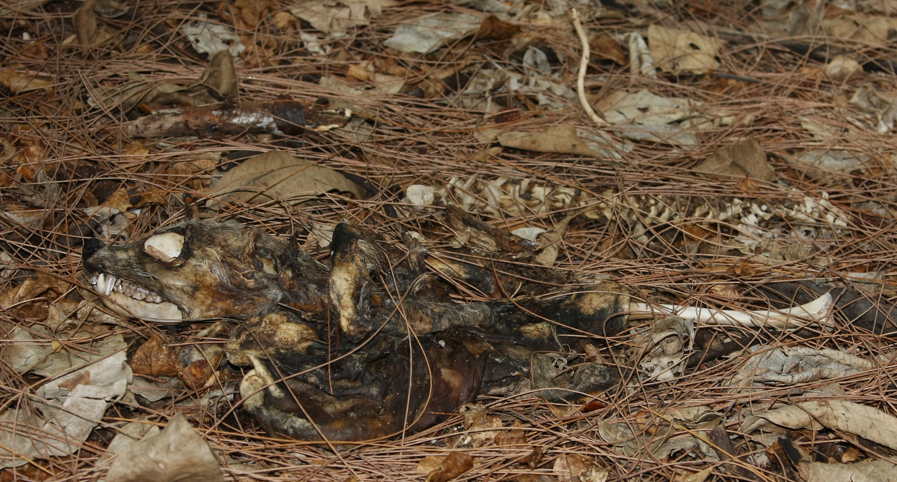 The remains of a gray fox.